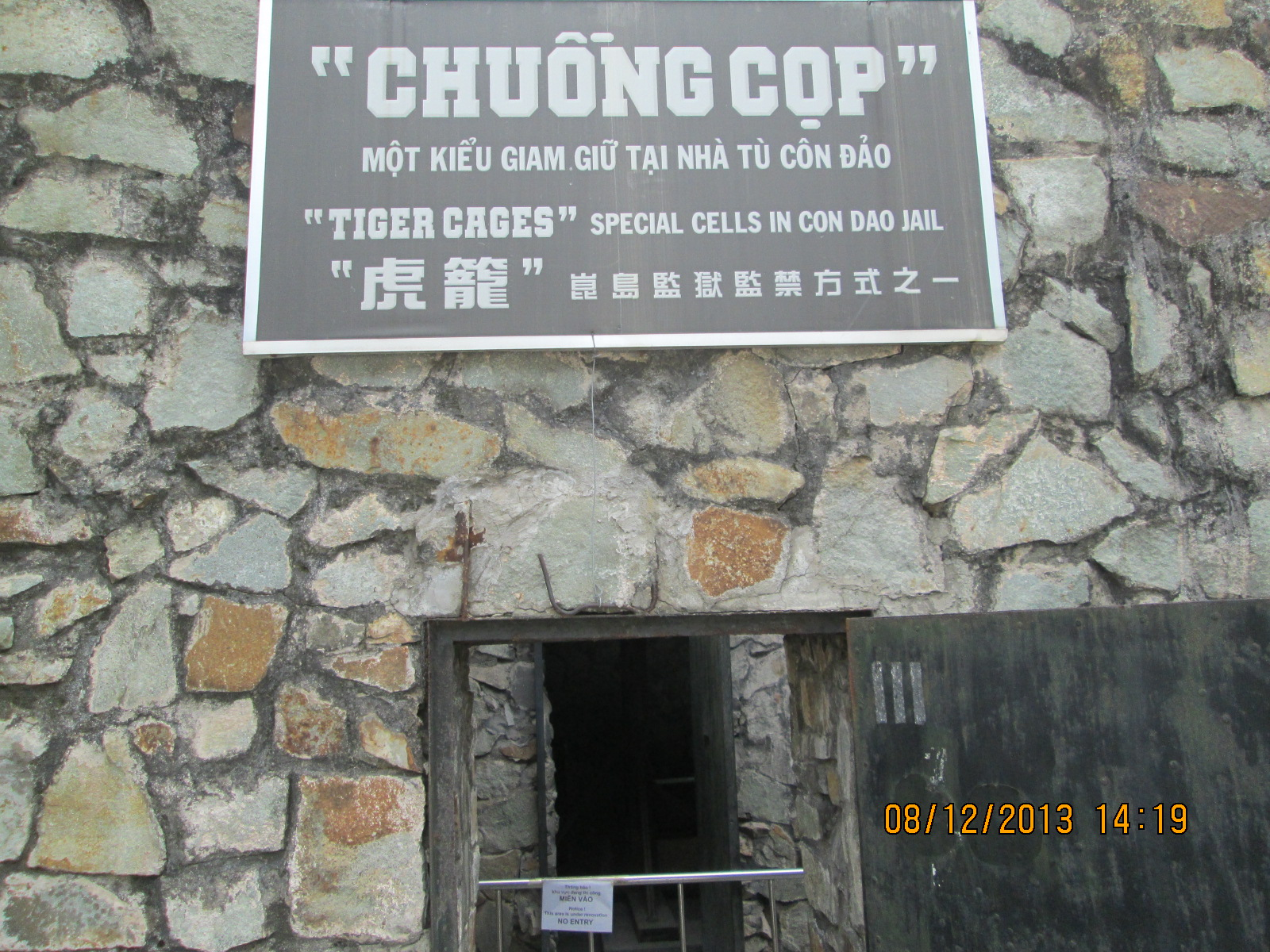 A view of "Tiger Cage Cells" in the museum.